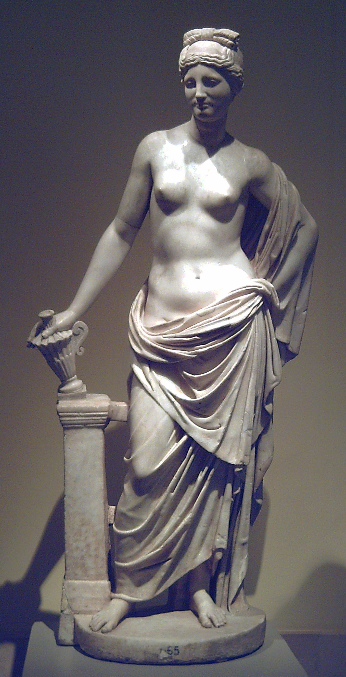 Roman statue, copy after a Hellenistic original, from circa 150 BC, of the so-called Marine Venus type. In the 17th century a perfume bottle was added under the right hand, leading to this work's best-known name. The head comes from a restoration carried out by Valeriano Salvatierra in the early 19th century.